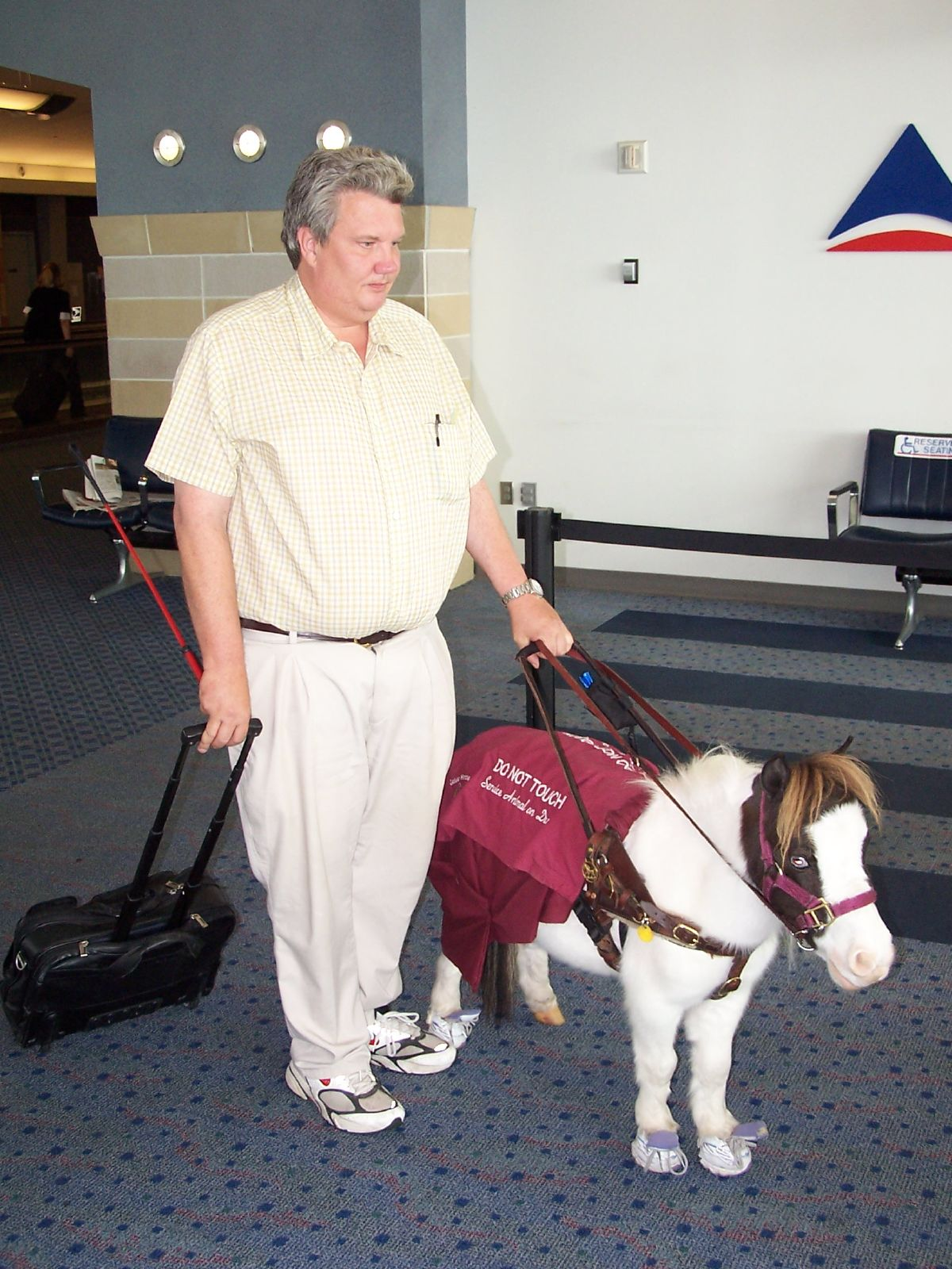 This is Scout, a miniature horse that works as a guide horse. I saw him and his partner at the Cincinnati airport and asked if I could take a picture as I had never seen a guide horse before! Yes, he did get on a plane! Please note the sneakers. These have become more and more accepted by guide horse users as horseshoes tend to set off metal detectors at airports.